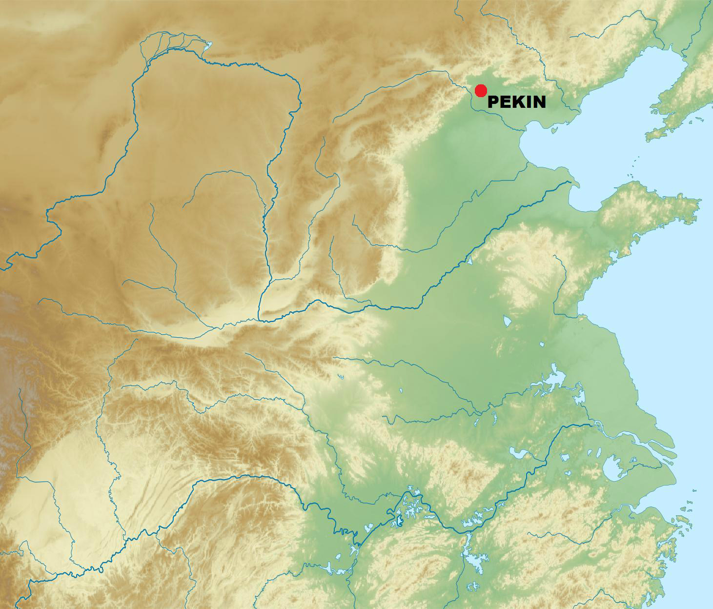 A relief map of the North China Plain and surrounding areas. Equirectangular projection, N/S stretching 122%. Geographic limits of the map: N: 42.0° N S: 28.0° N W: 103.0° E E: 123.0° E Section of Natural Earth Cross Blended Hypso with Shaded Relief, Water, and Drainages from (public domain)